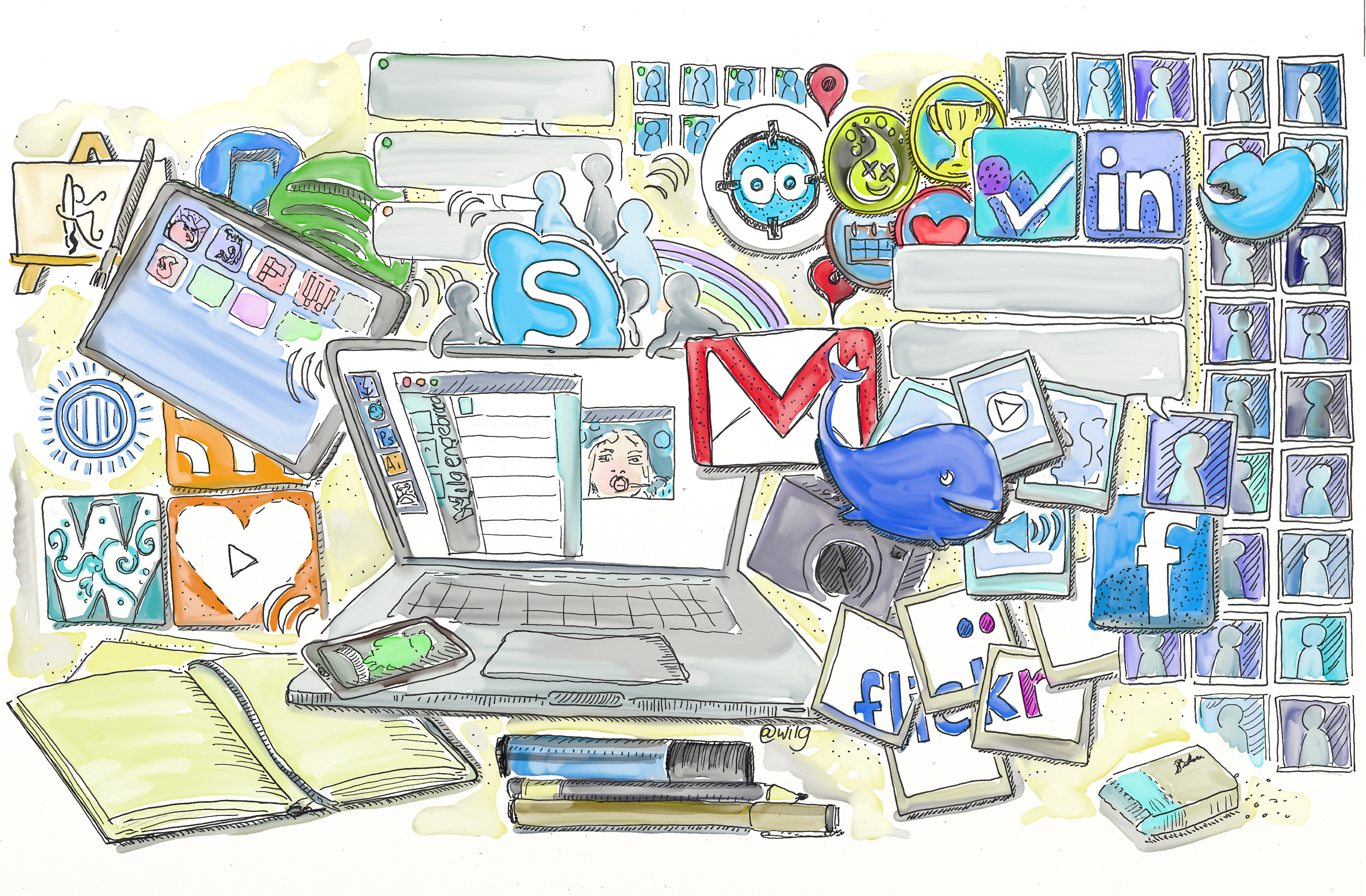 Drawing about the Social networking services